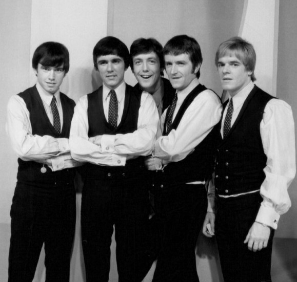 Publicity photo of the rock group The Dave Clark Five from an appearance on Ed Sullivan's television program.